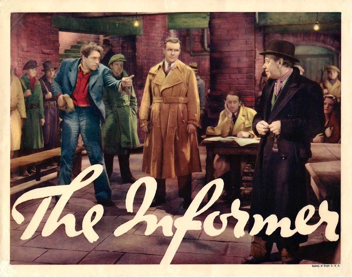 Lobby card for the 1935 American film The Informer with Victor McLaglen, Preston Foster, and Donald Meek.